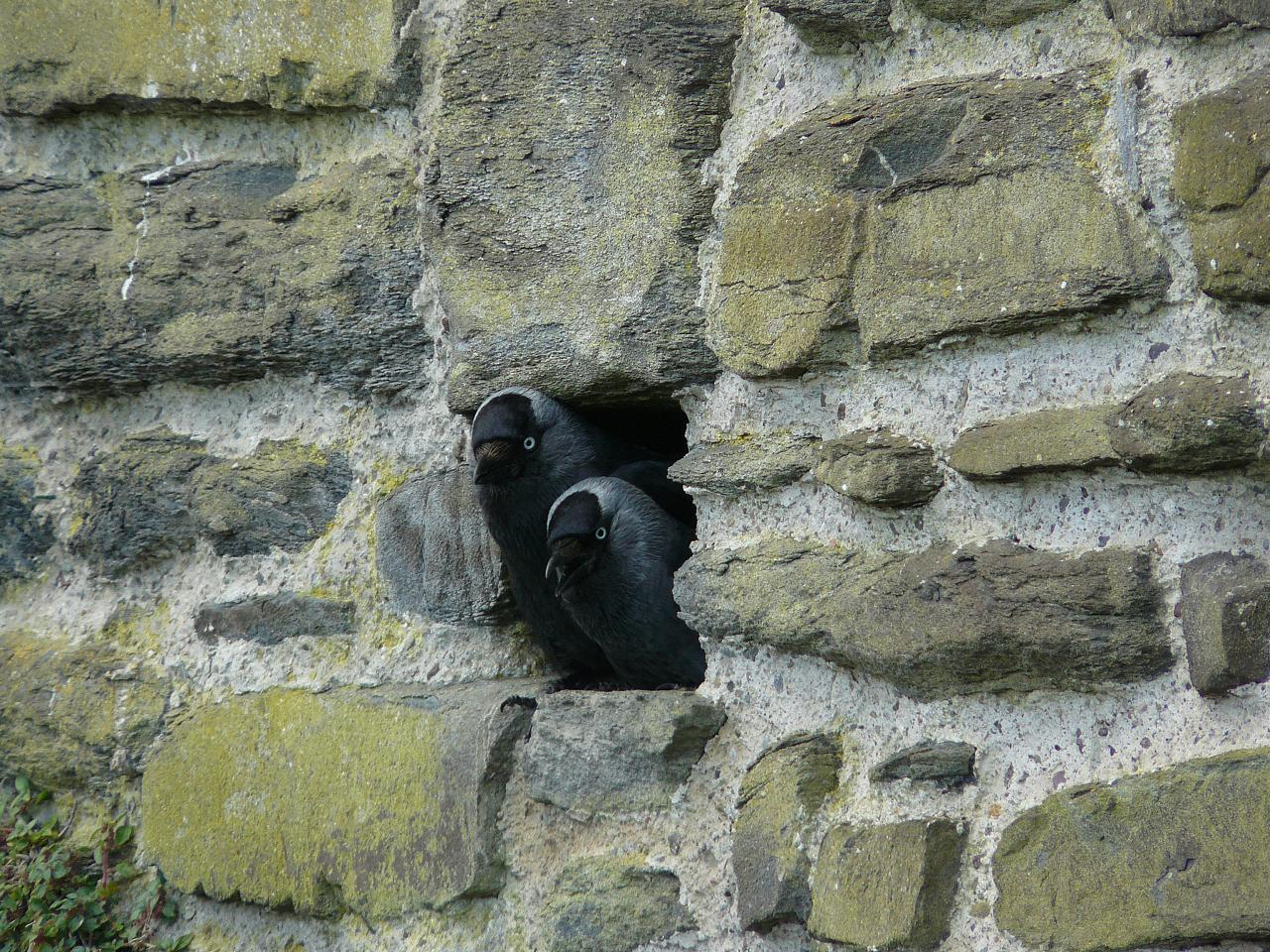 Two Jackdaws in a hole in a wall at Conwy Castle, Clwyd, Wales.